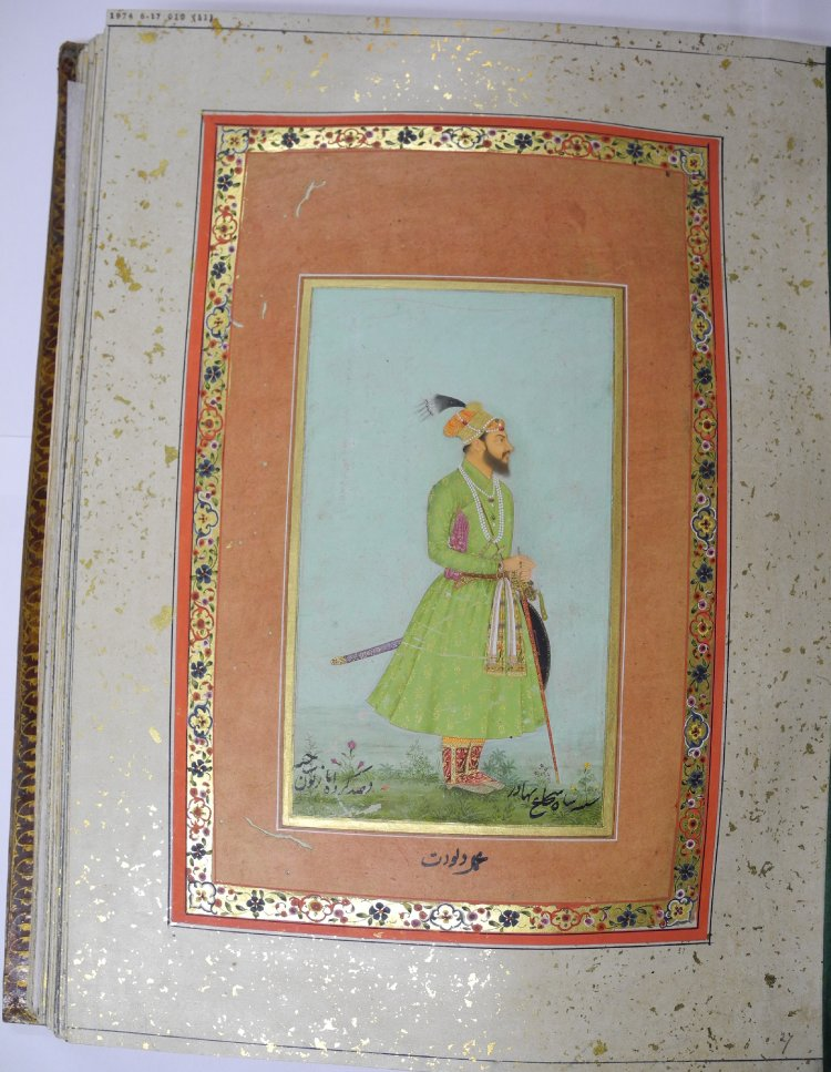 Album Leaf (recto). Portrait. Sháh Shujáʿ. On Paper. According to register, folio 6. See 1974,0617,0.10 for album description.